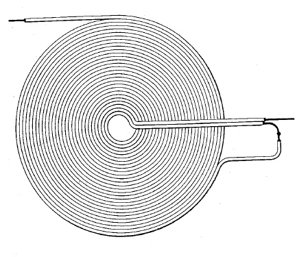 Bifilar coil in Nikola Tesla's United States patent 512,340 of 1894. Tesla explains that in some applications (which he does not specify) the self-inductance of a conventional coil is undesired and has to be neutralised by adding external capacitors. The bifilar coil in this configuration has increased self-capacitance, thereby saving the cost of the capacitors. It is notable that this is not the kind of bifilar winding used in non-inductive wirewound resistors where the windings are wired anti-series to null out self-inductance. It's also interesting to note that Tesla's bifilar coil is used in John Bedini's permanent back emf motor which are (alleged) overunity motors with open loop circuts. For more information see John Bedini.